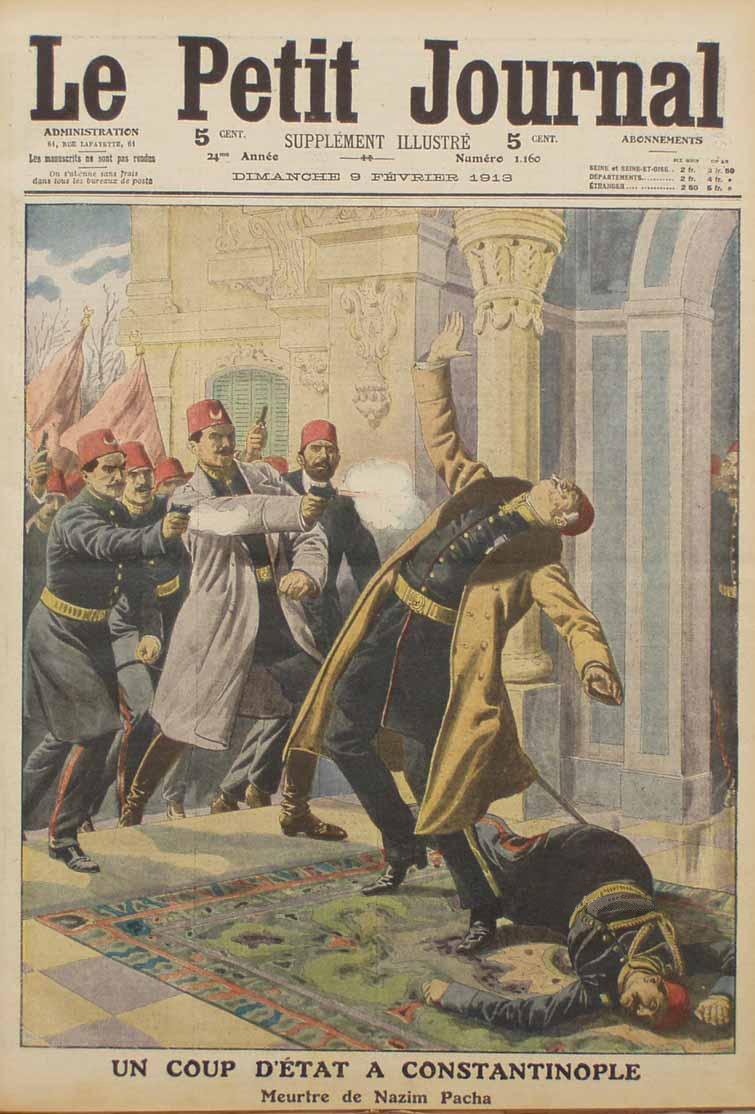 Coup d'Etat at Constantinople, murder of Nazim Pasha, front cover illustration from 'Le Petit Journal', supplement illustre.